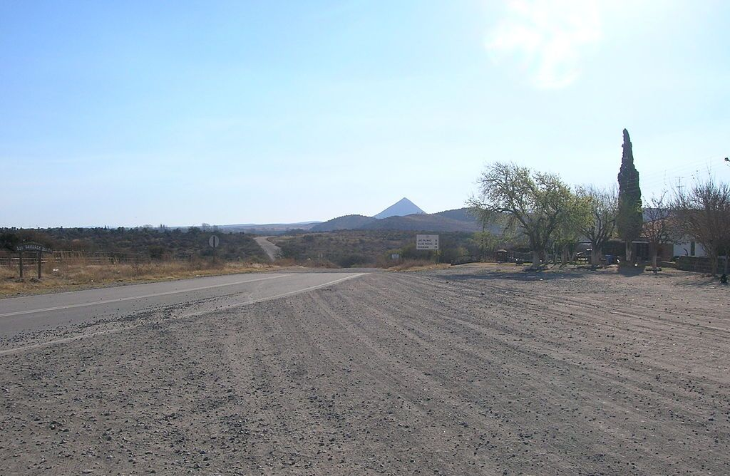 View of POCA vulcan, from the town of Taninga, to 7 km. away.